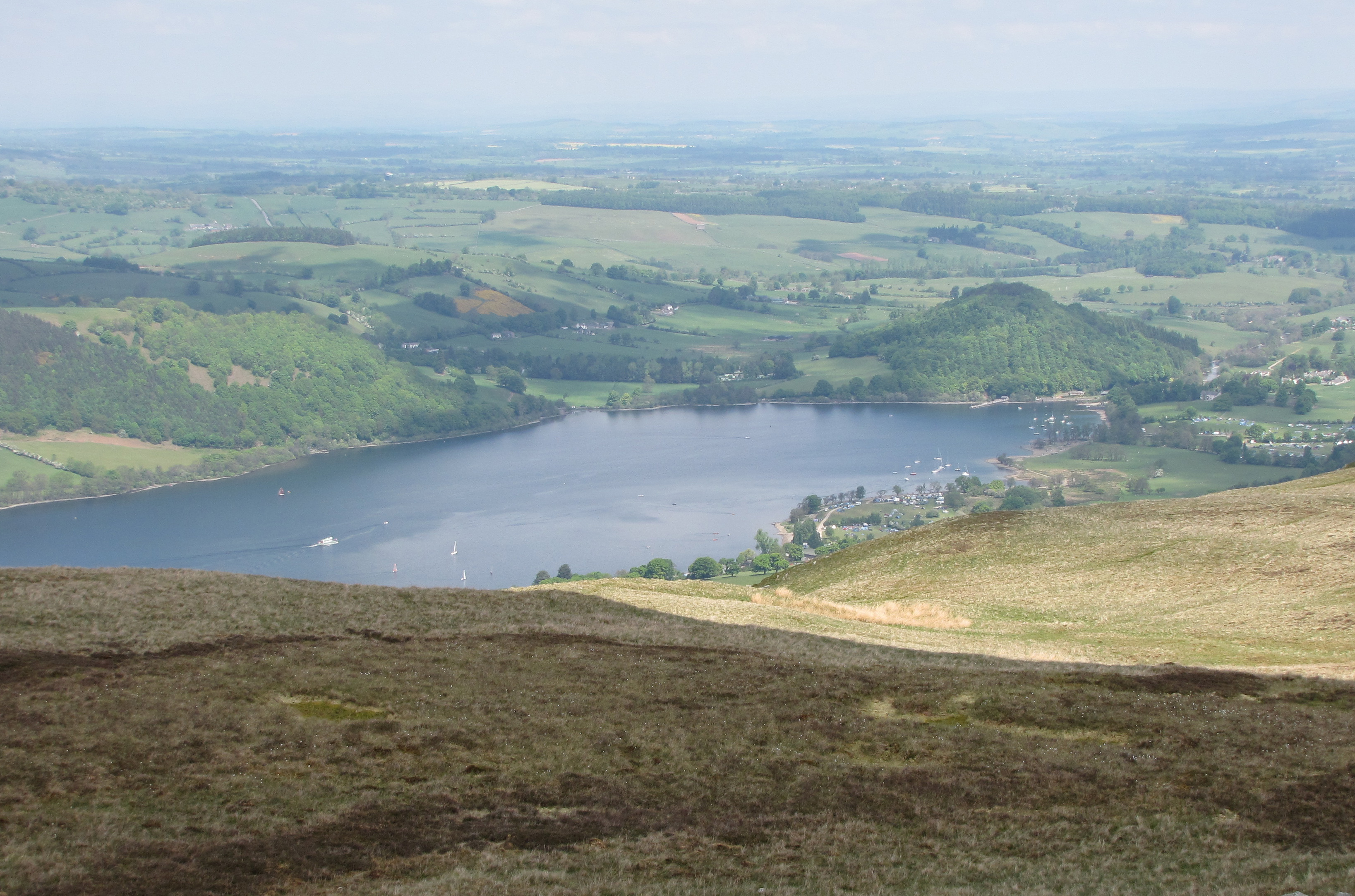 The view north from the summit of Arthur's Pike towards Pooley Bridge and the head of Ullswater.